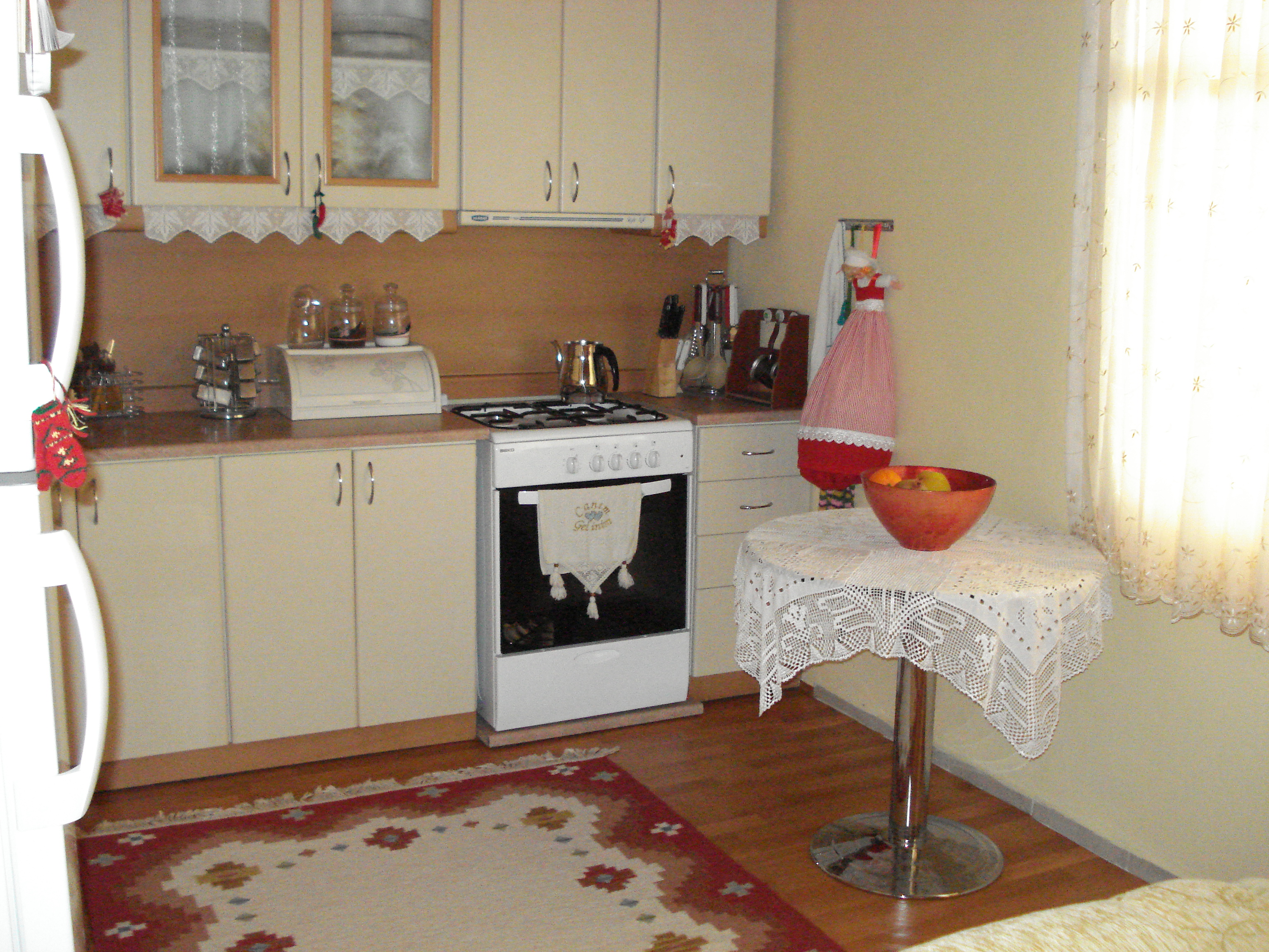 A kitchen in Turkey.